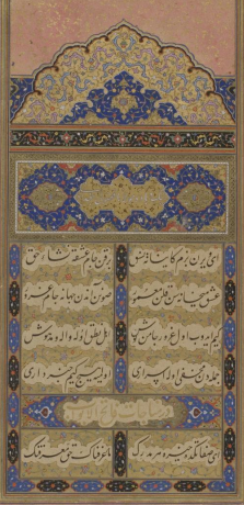 Miniature from Bengu Bade